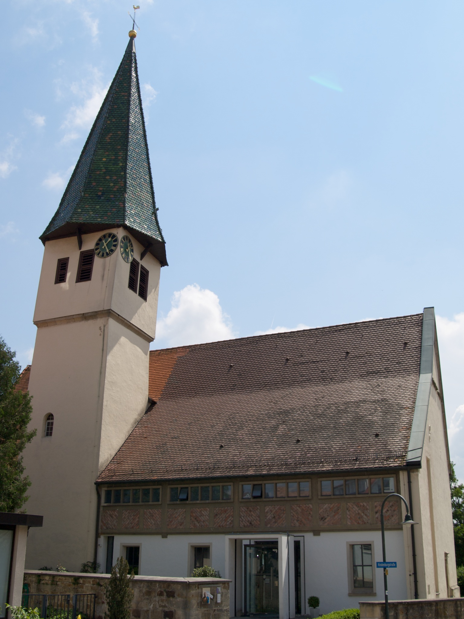 Protestant church in Kusterdingen.